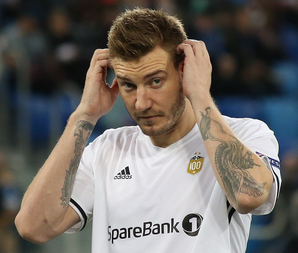 Nicklas Bendtner with Rosenborg before the Europa League game against Zenit St. Petersburg.